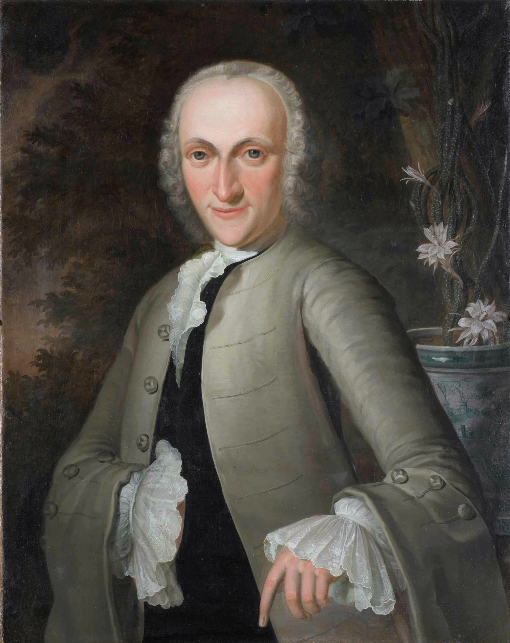 Samuel Luchtmans (junior) 1725 – 1780